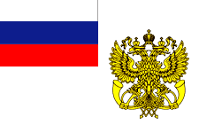 Flag of the organizations of federal postal communication of the Russian Federation.